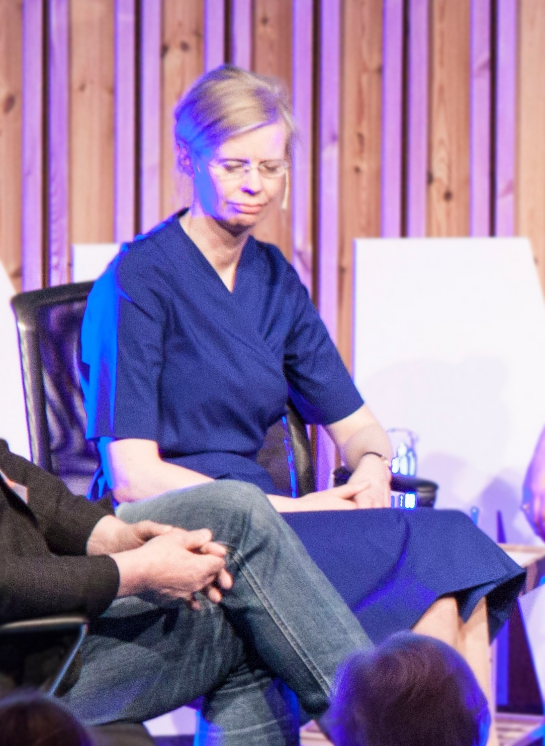 Moderator: Sarah Natasha Melbye. Arild Brubak (strix), Hedvig Montgomery (Montgomery AS), Vidar Nordli-Mathisen (Teddy TV), Hildegunn Wærness (ITV)